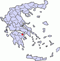 locator map, based on Image:Prefectures Greece grey.png